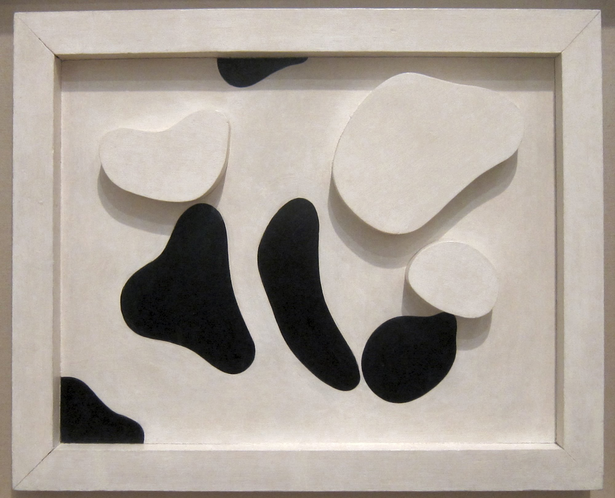 Constellation According to the Laws of Chance, aluminium sculpture by Jean Arp (Hans Arp), c. 1930, Tate Modern